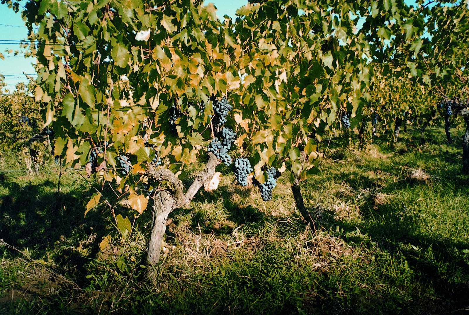 Vines of the Italian grape variety ciliegiolo